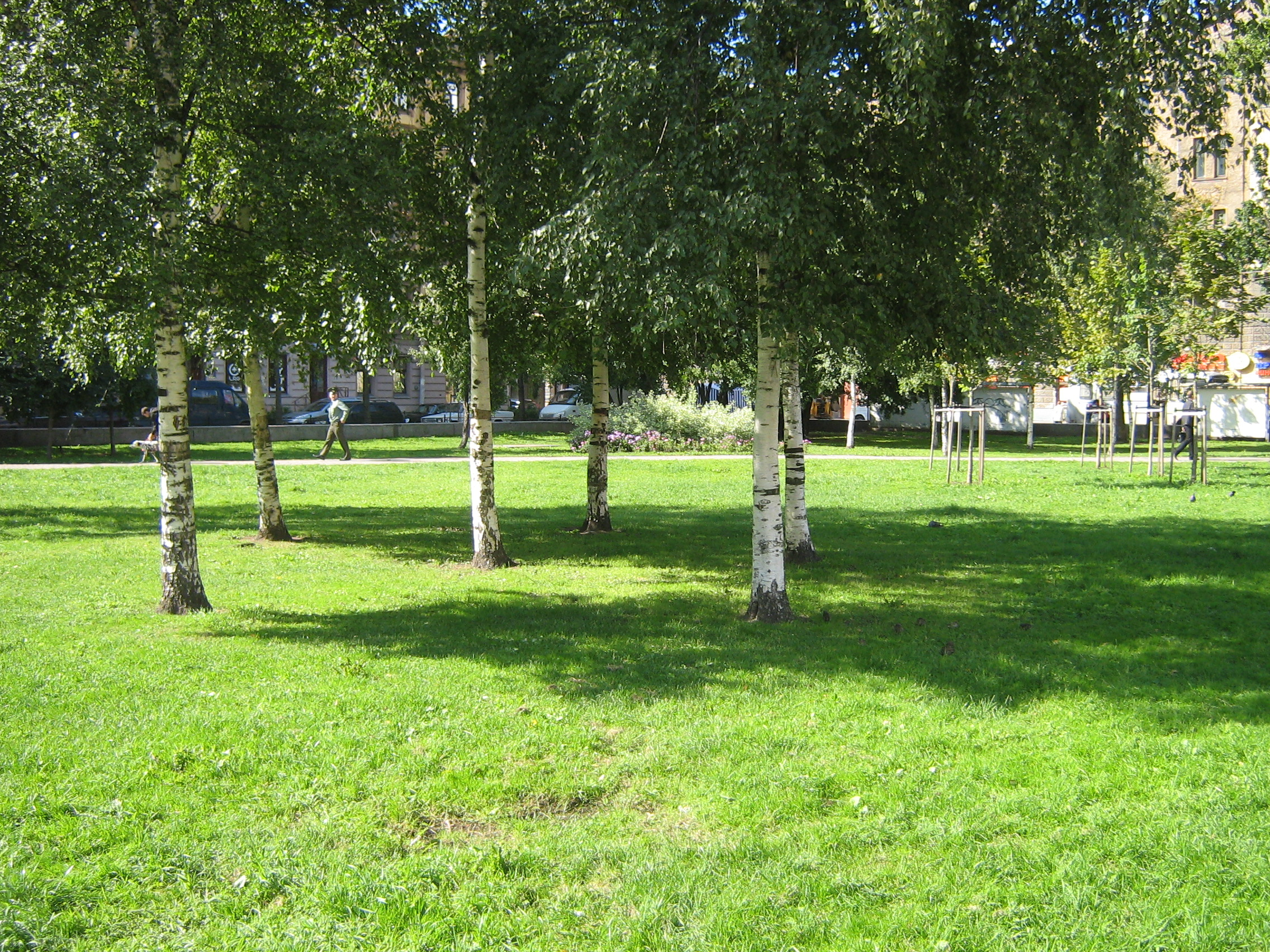 Saint Petersburg (Russia), Petrogradsky District.